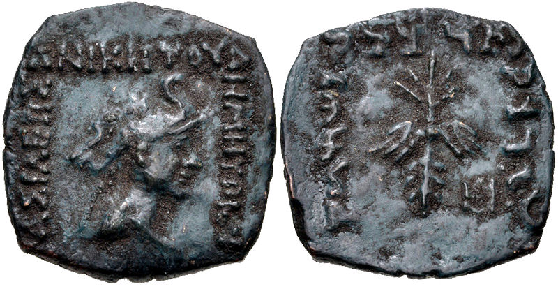 Demetrios III Aniketos